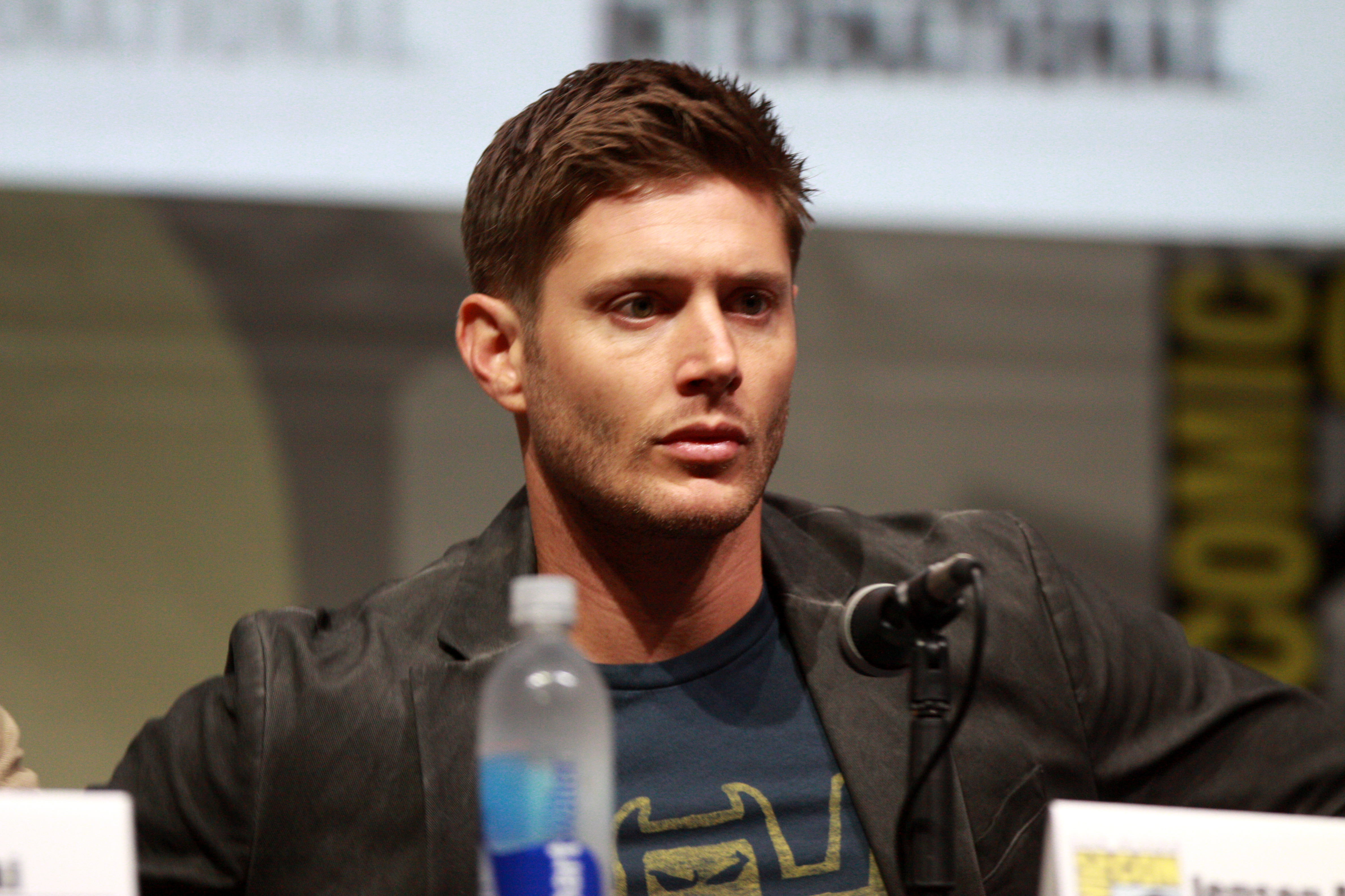 Jensen Ackles speaking at the 2013 San Diego Comic Con International, for "Supernatural", at the San Diego Convention Center in San Diego, California.